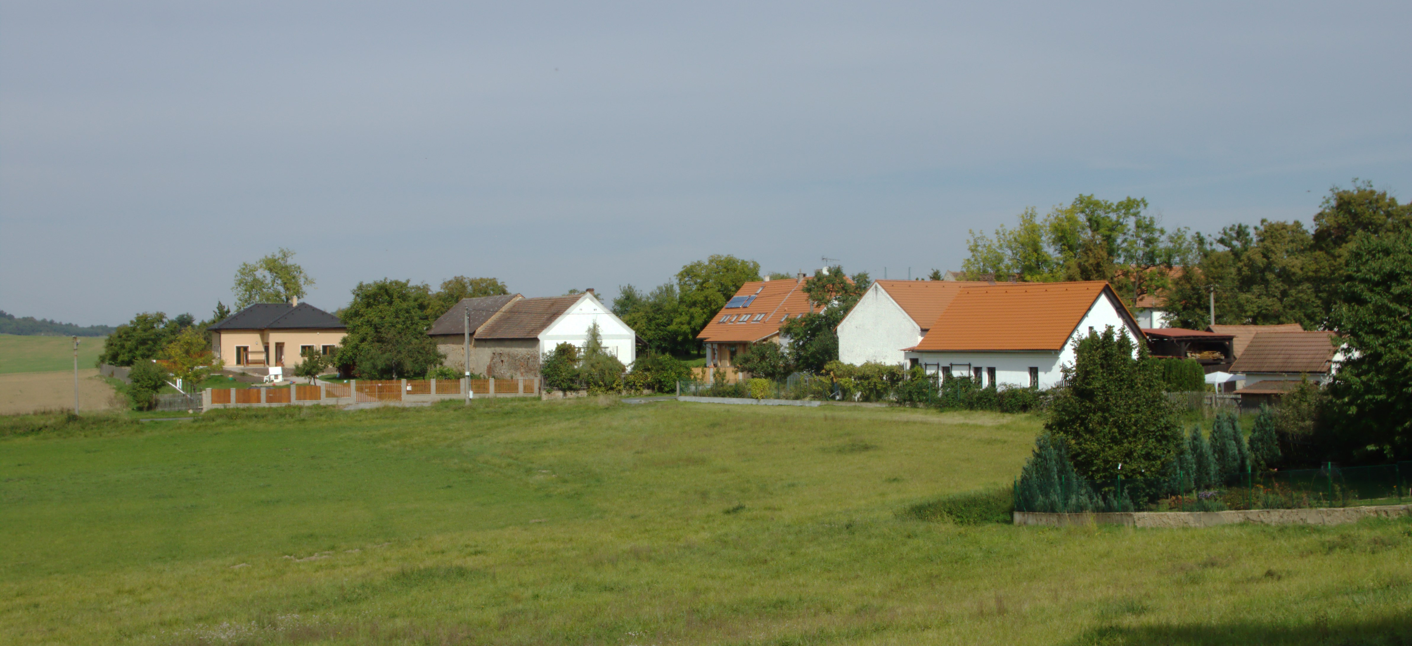 Lhotka u Berouna village, Central Bohemian Region, CZ